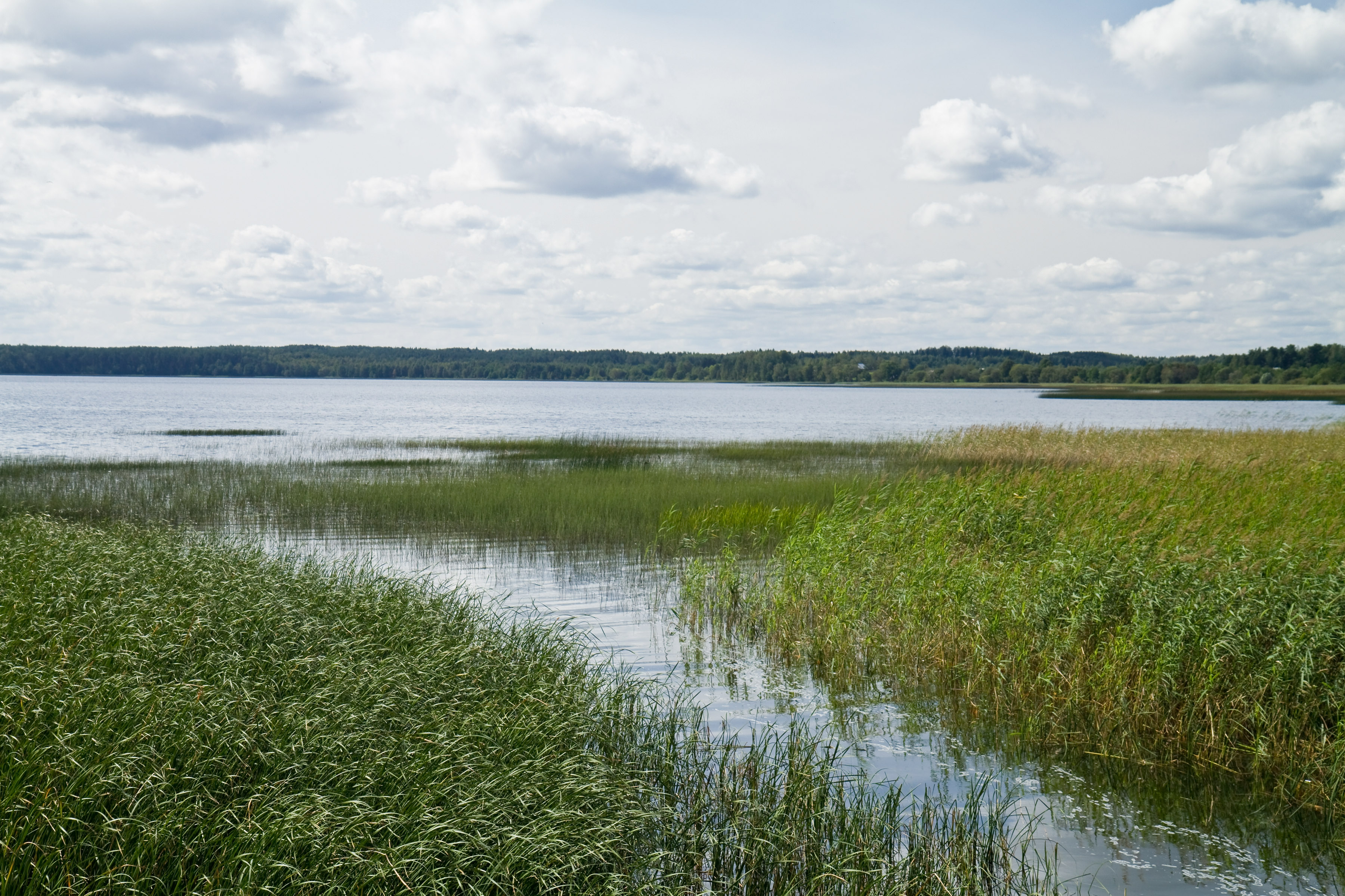 Absterna Lake. Miorski district, Viciebsk province, Belarus.